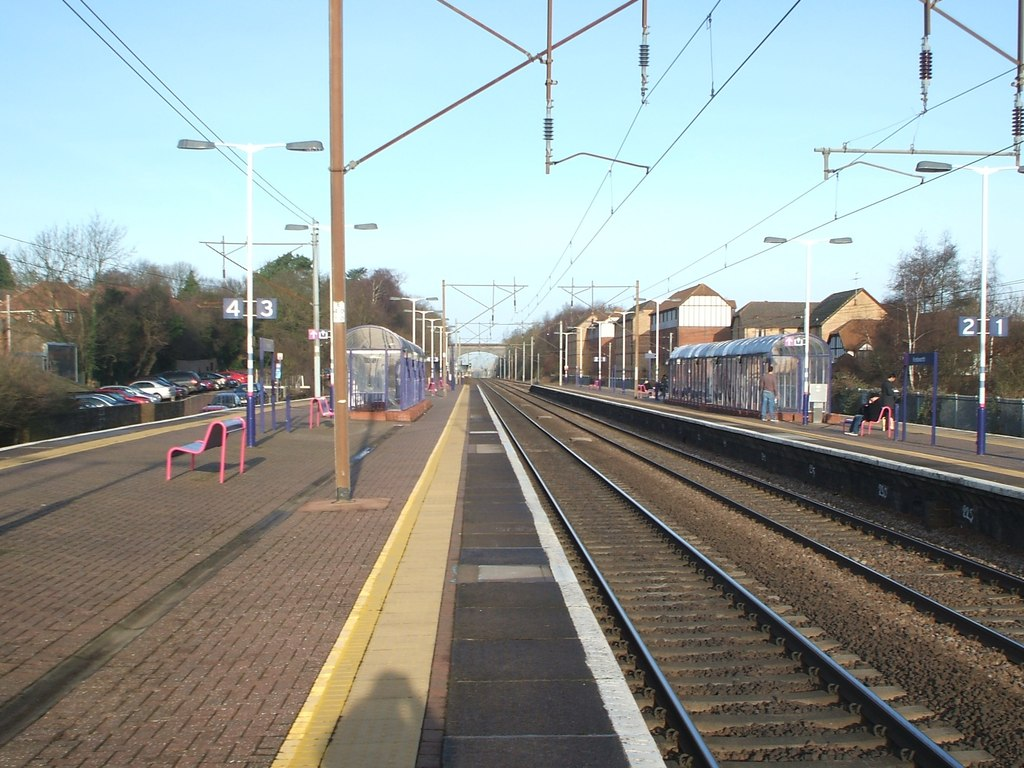 Knebworth railway station, Hertfordshire. Opened in 1884 by the great Northern Railway on its line from London to Stevenage. View north towards Stevenage and Peterborough.